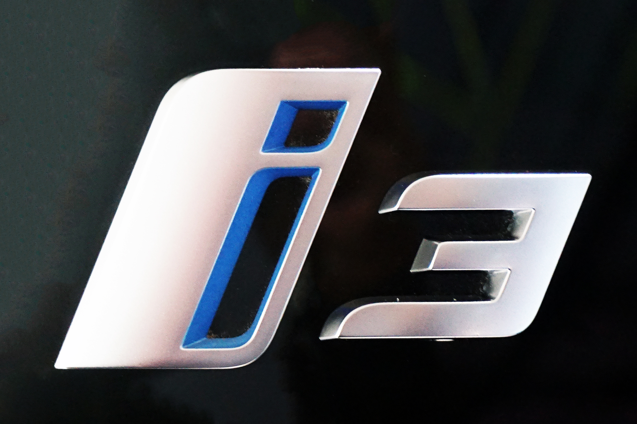 BMW i3 badge